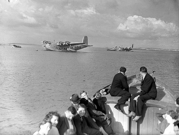 Two flying boats at Foynes. (Aircraft on left is 'Maia' (G-ADHK), a Short Brothers Ltd S21 C/N S.797 and on the right a S.23 Empire boat